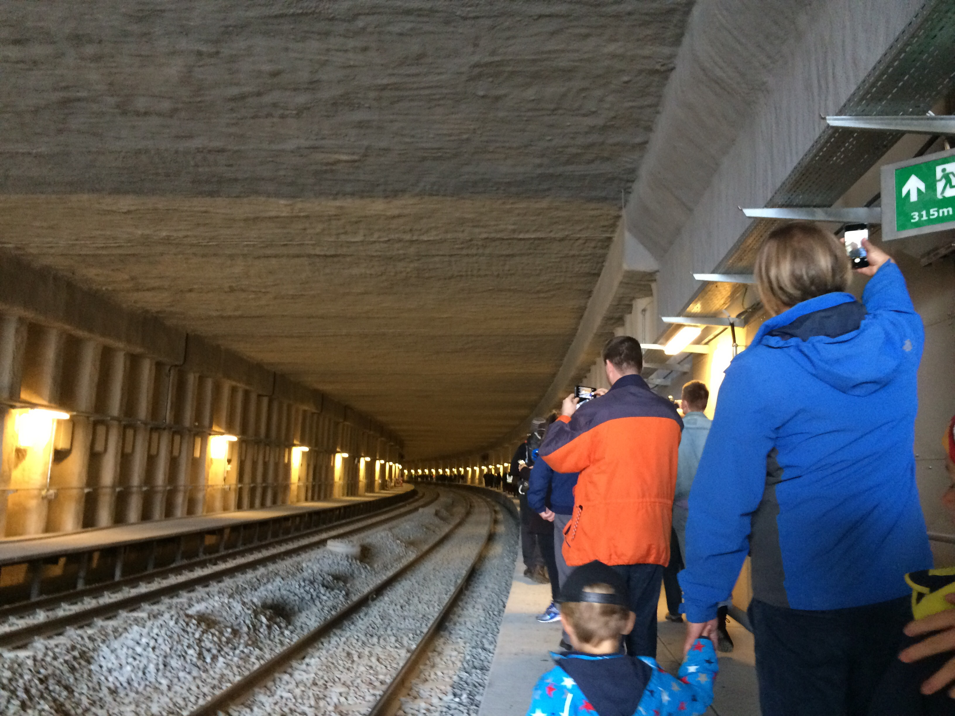 København-Ringsted Banen - Kulbanetunnelen before it was opened